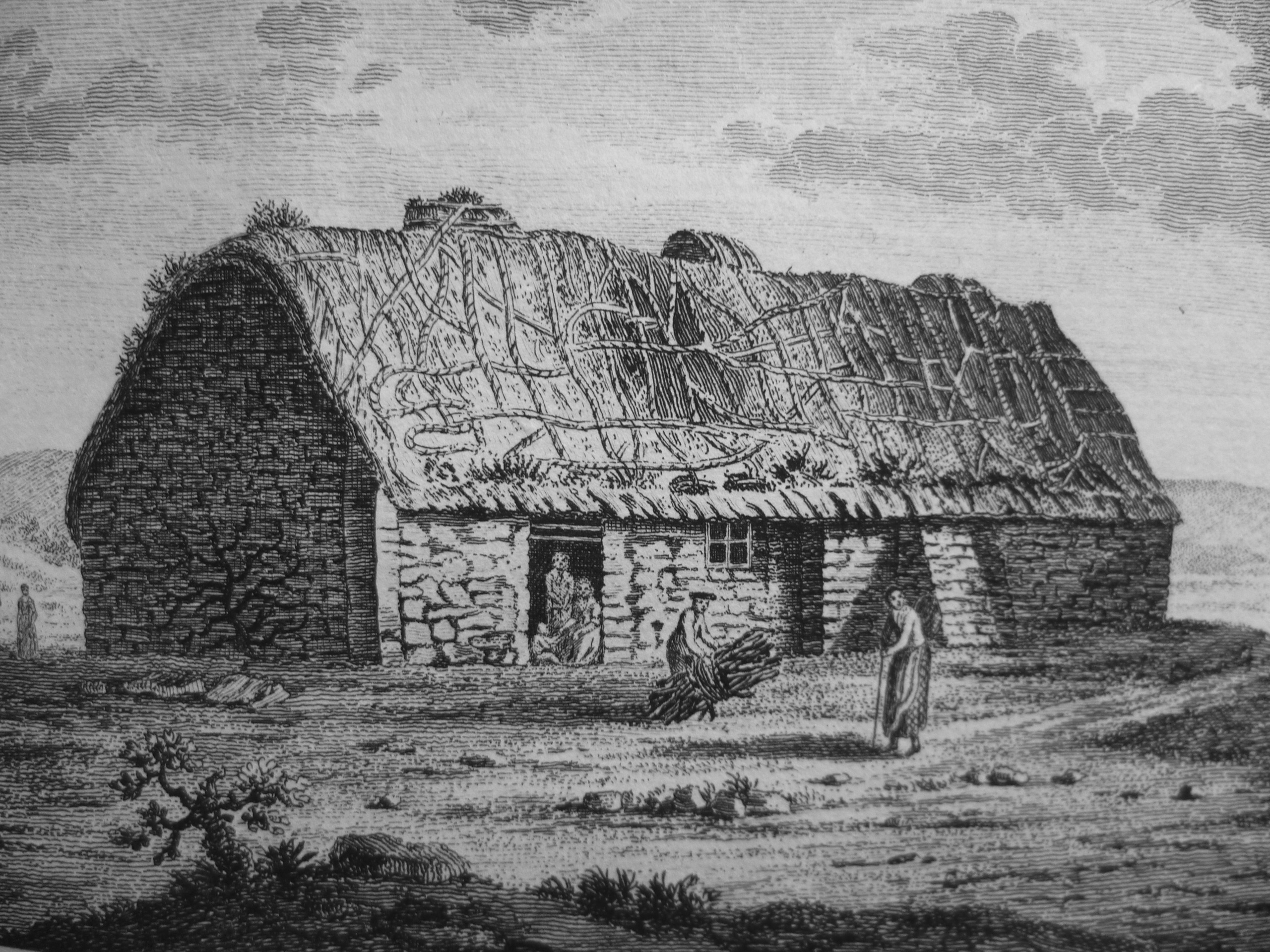 Cottage on Islay from Thomas Pennant's Tour of 1772